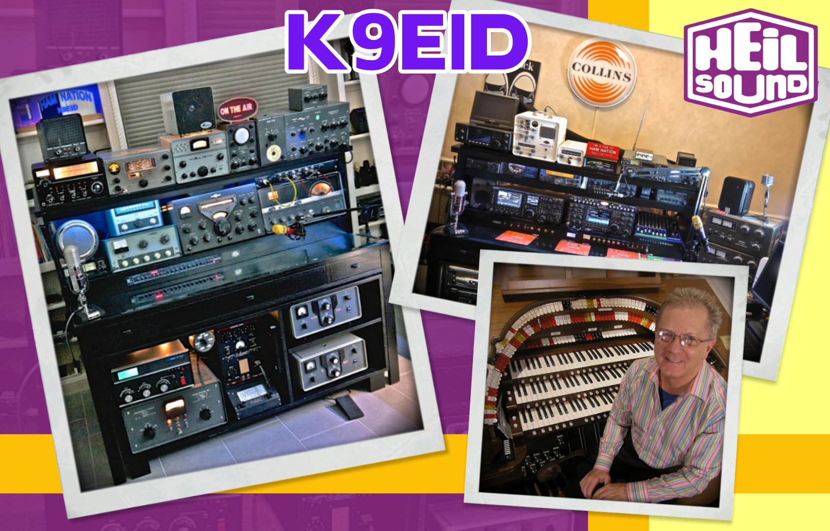 photos copyright Bob Heil